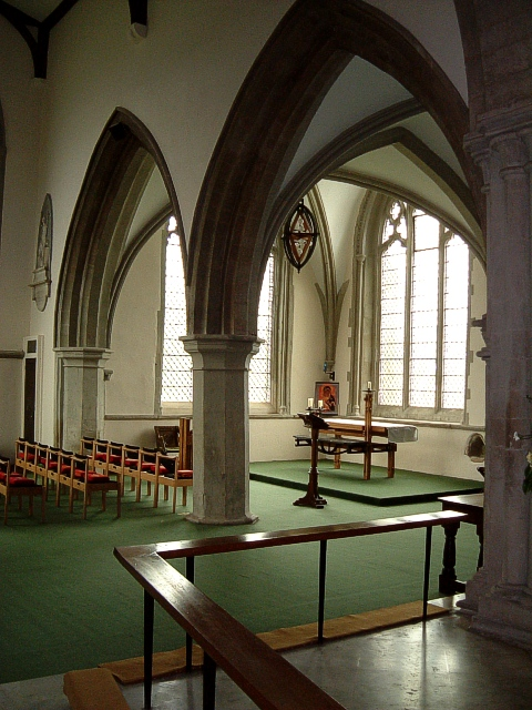 The Lady chapel seen here is to the east of the northern transept of St. Peter's Church in Berkhamsted, Hertfordshire, England, UK. On the southern wall of this chapel are the tombs of John Sayer and Henry of Berkhamsted.